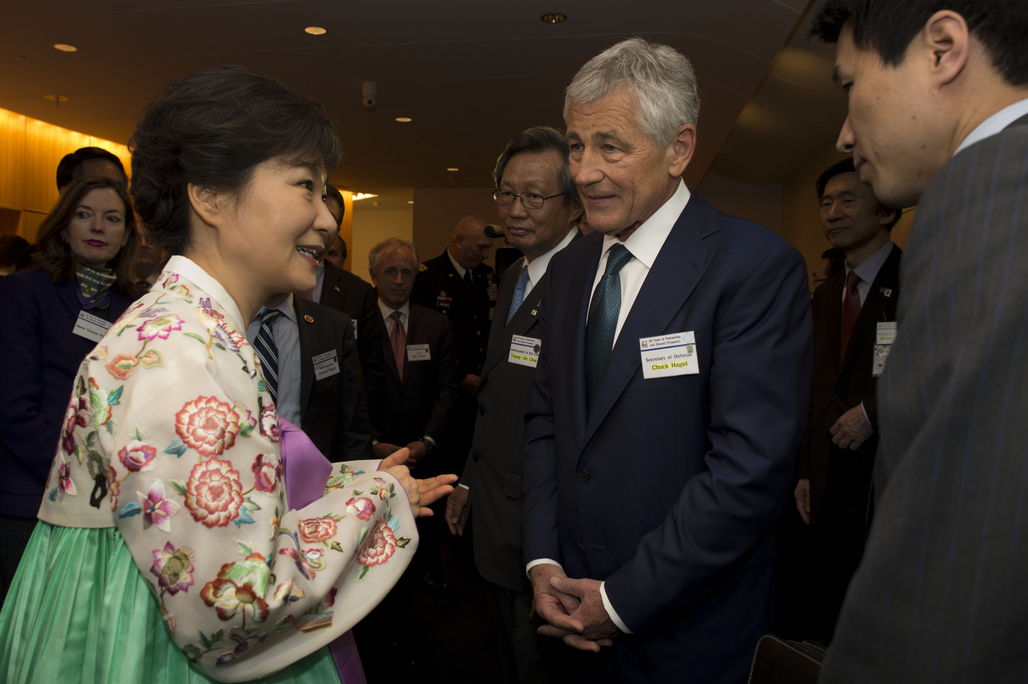 Secretary of Defense Chuck Hagel speaks with Republic of Korea President, Park Guen-Hye, at the 60th Anniversary Gala of the U.S.-Republic of Korea Alliance, at the National Portrait Gallery in Washington D.C. May 7, 2013. Hagel also met with President Park for a bilateral engagement prior to the event.(Photo by Erin A. Kirk-Cuomo) (Released)